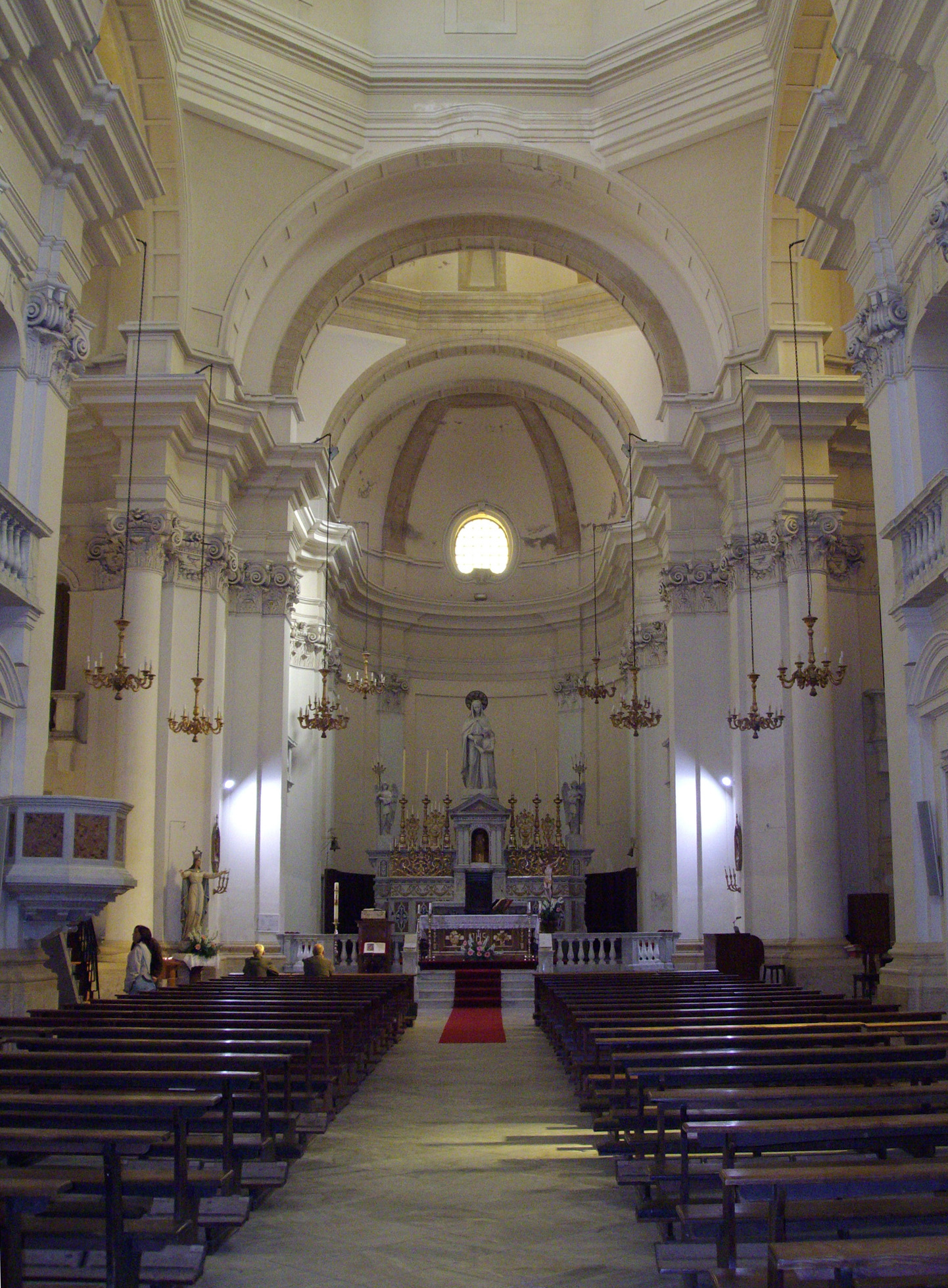 Church of Sant'Anna in Cagliari